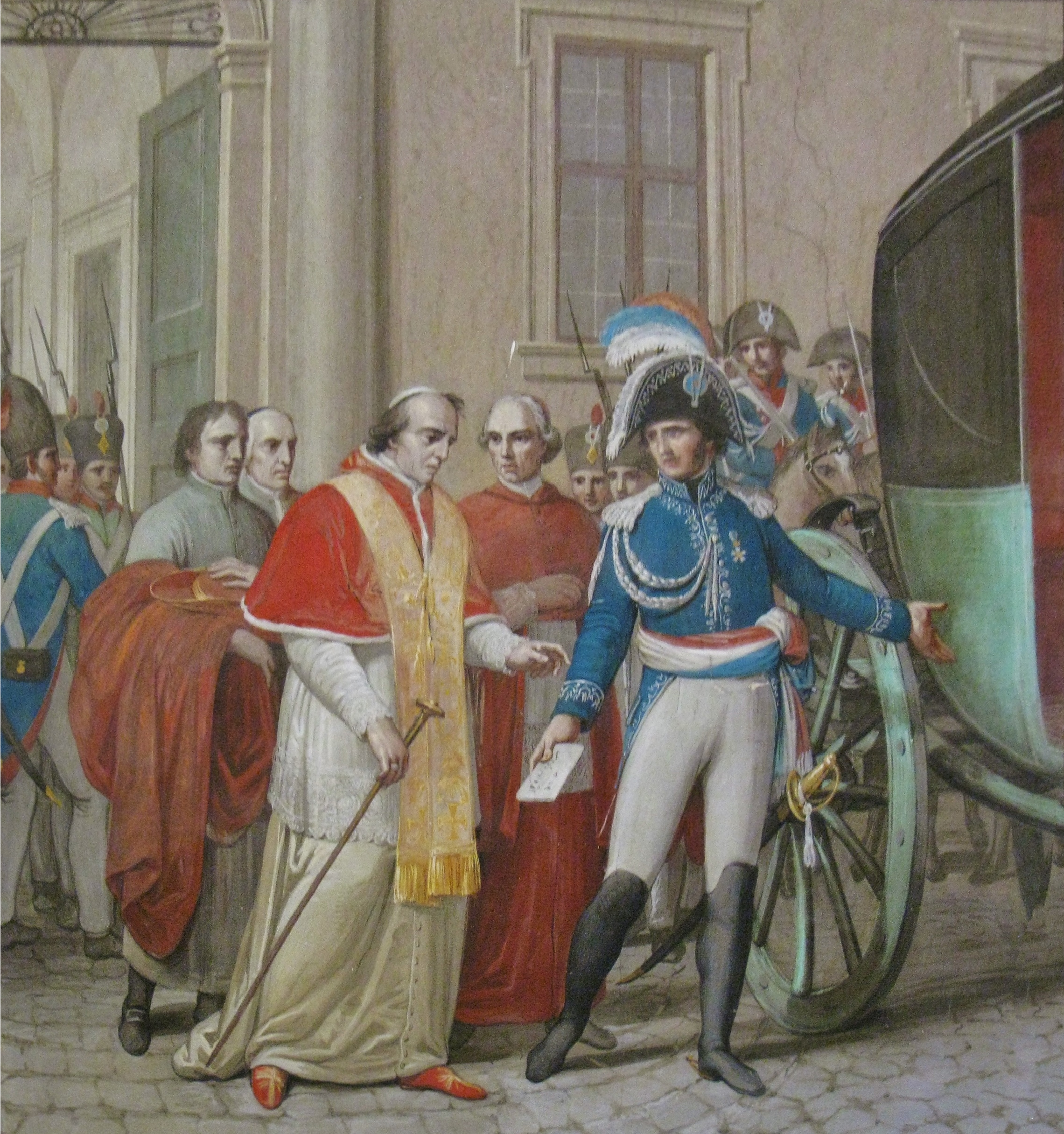 Musée Chiaramonti. Arrestation du Pape Pie VII par le Général Radet dans la nuit du 5 au 6 juillet 1809